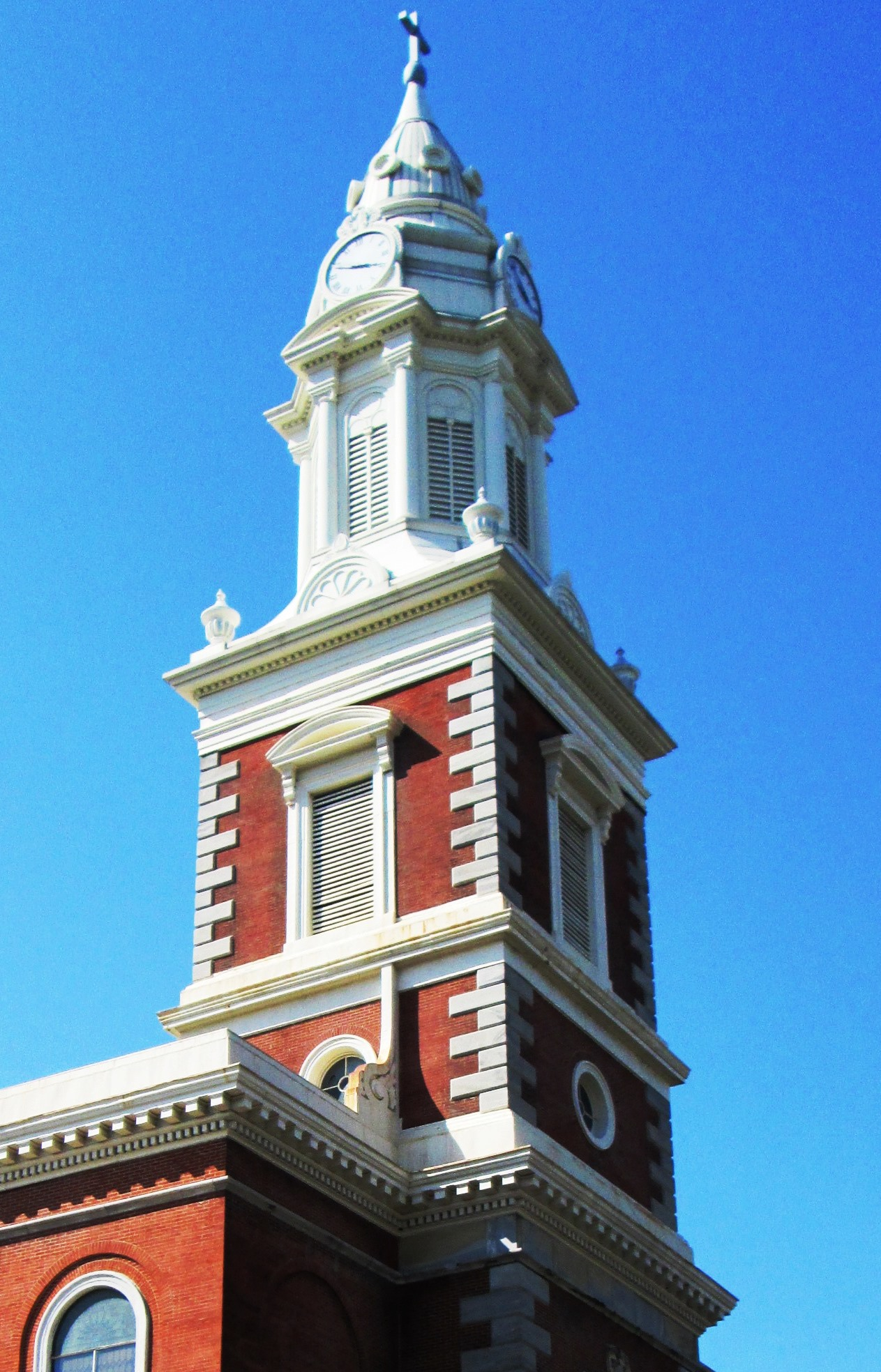 St. Augustine Roman Catholic Church (parish founded in 1796, church built in 1847, designed by Napoleon LeBrun), located at 243 North Lawrence Street in the Old City neighborhood of Philadelphia, Pennsylvania, as seen down New Street from N. 3rd Street. The previous church was destroyed in 1844 in Nativist riots. (Source: "History" on the St. Augustine Church website)